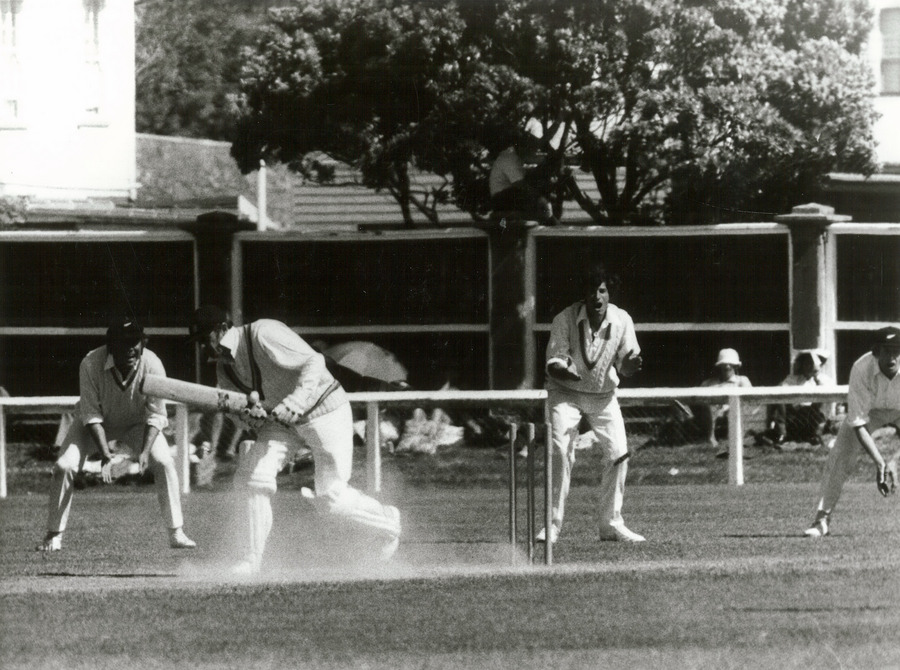 February 1978, Basin Reserve, Wellington AAQT 6539 W3537 box 16 L7/16/5/159